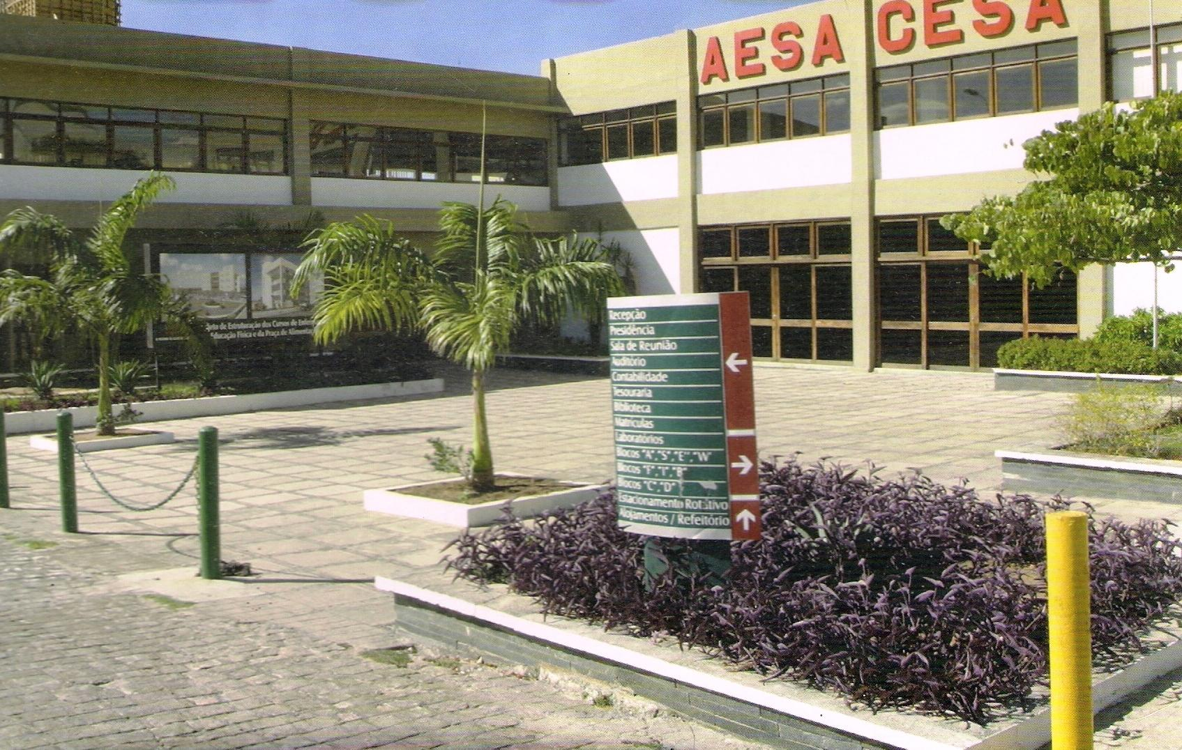 Authority for Higher Education Arcoverde AESA - Center for Higher Education Arcoverde CESA.